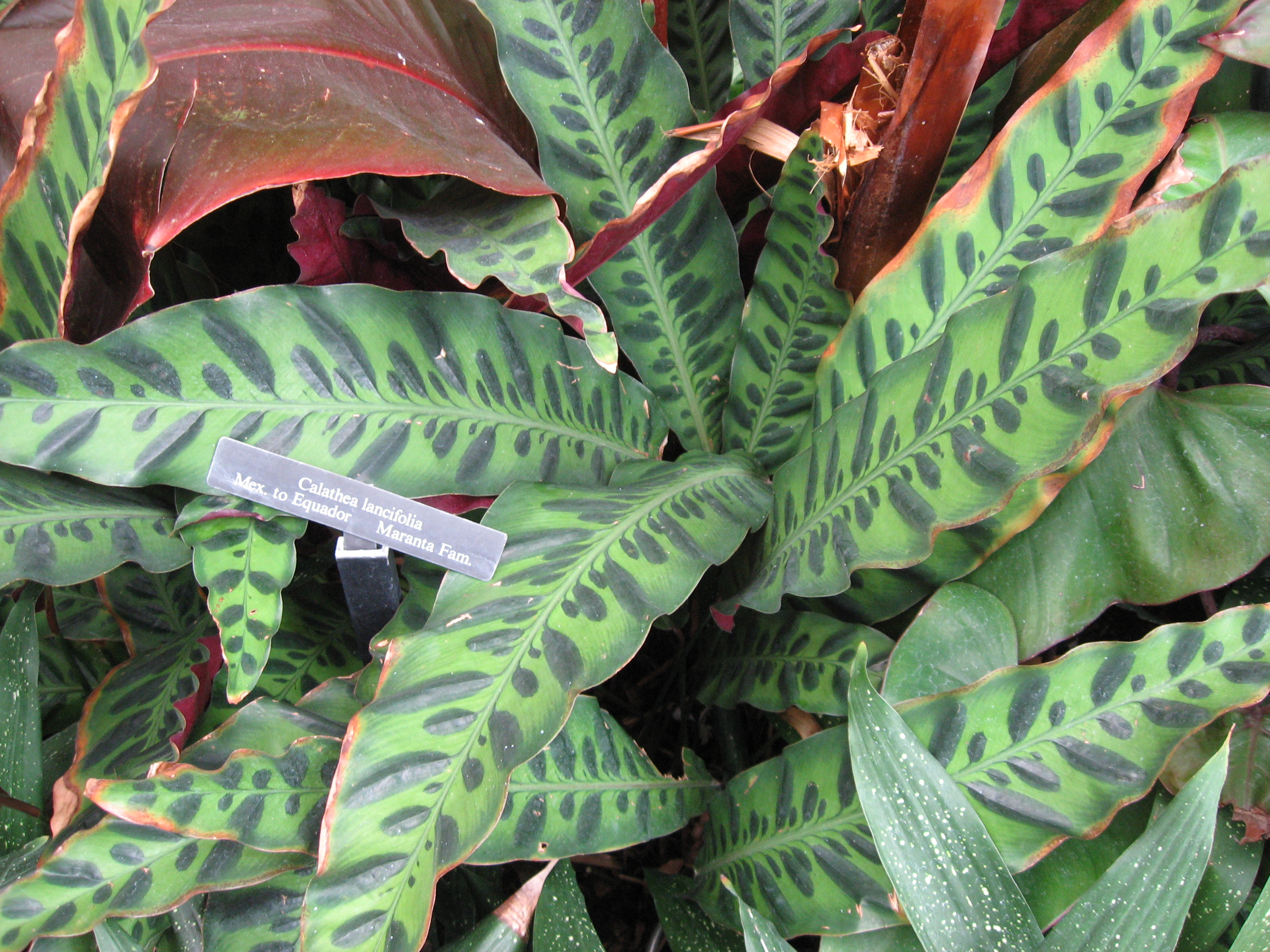 A picture of Calathea lancifolia.